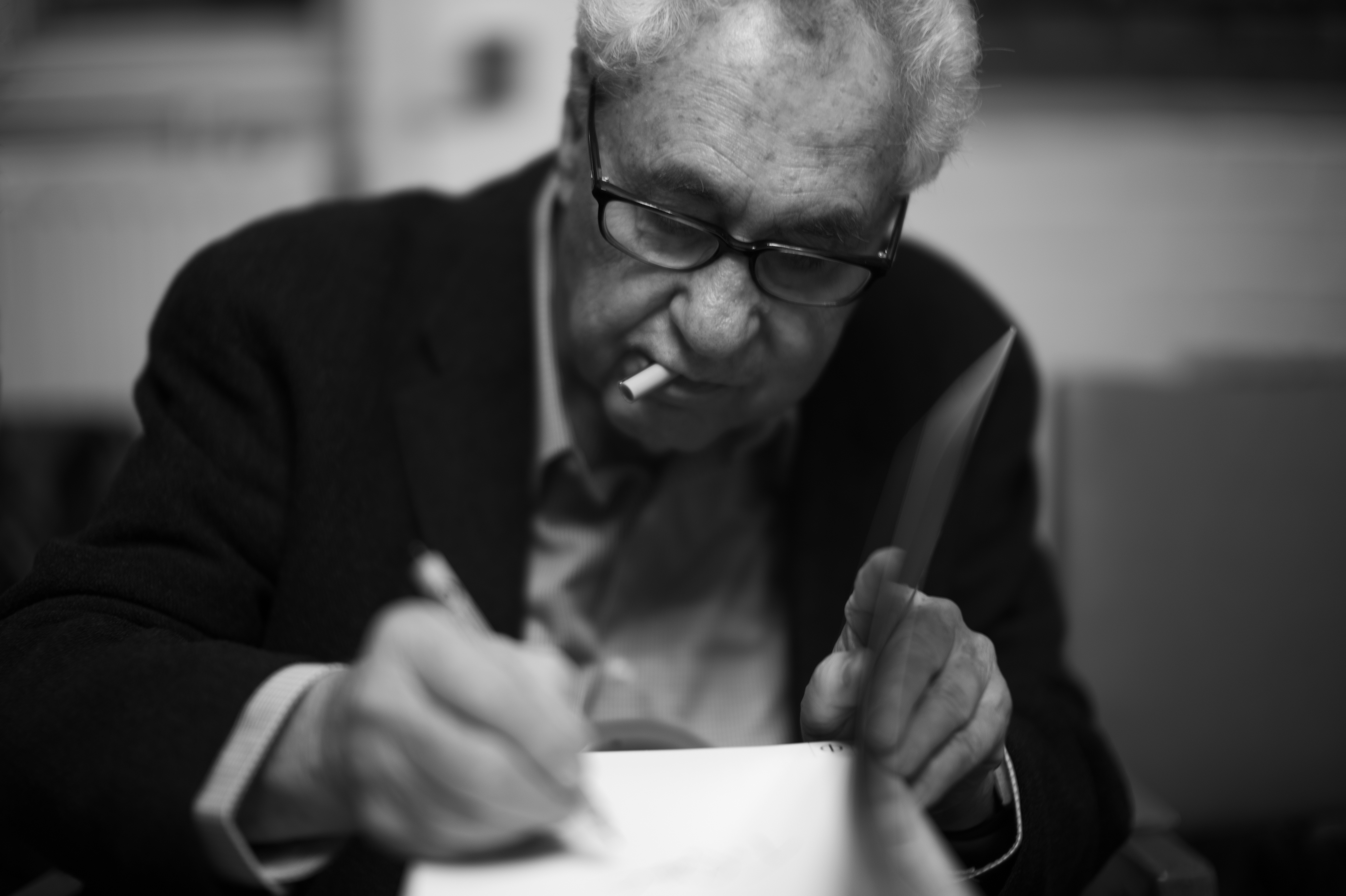 Magnum photographer and filmmaker Elliott Erwitt in the WestLicht, the center of photography in Vienna. Vienna, June 12, 2012.